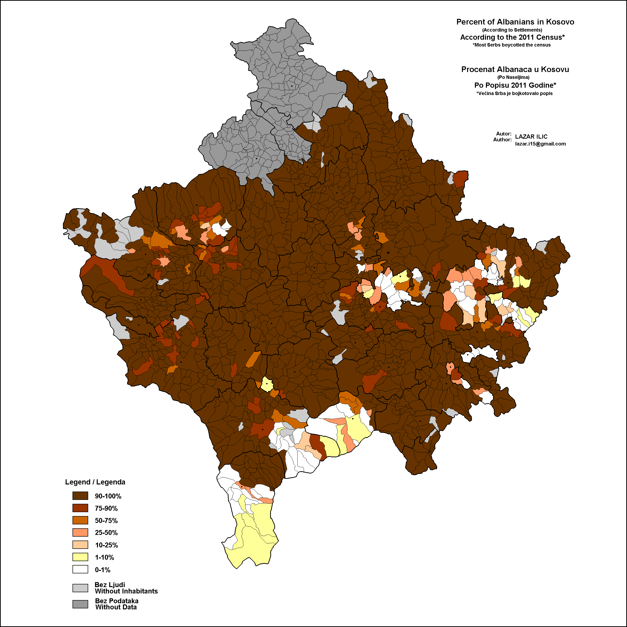 This is an ethnic map of Kosovo that shows the percent of Albanians according to the 2011 census.